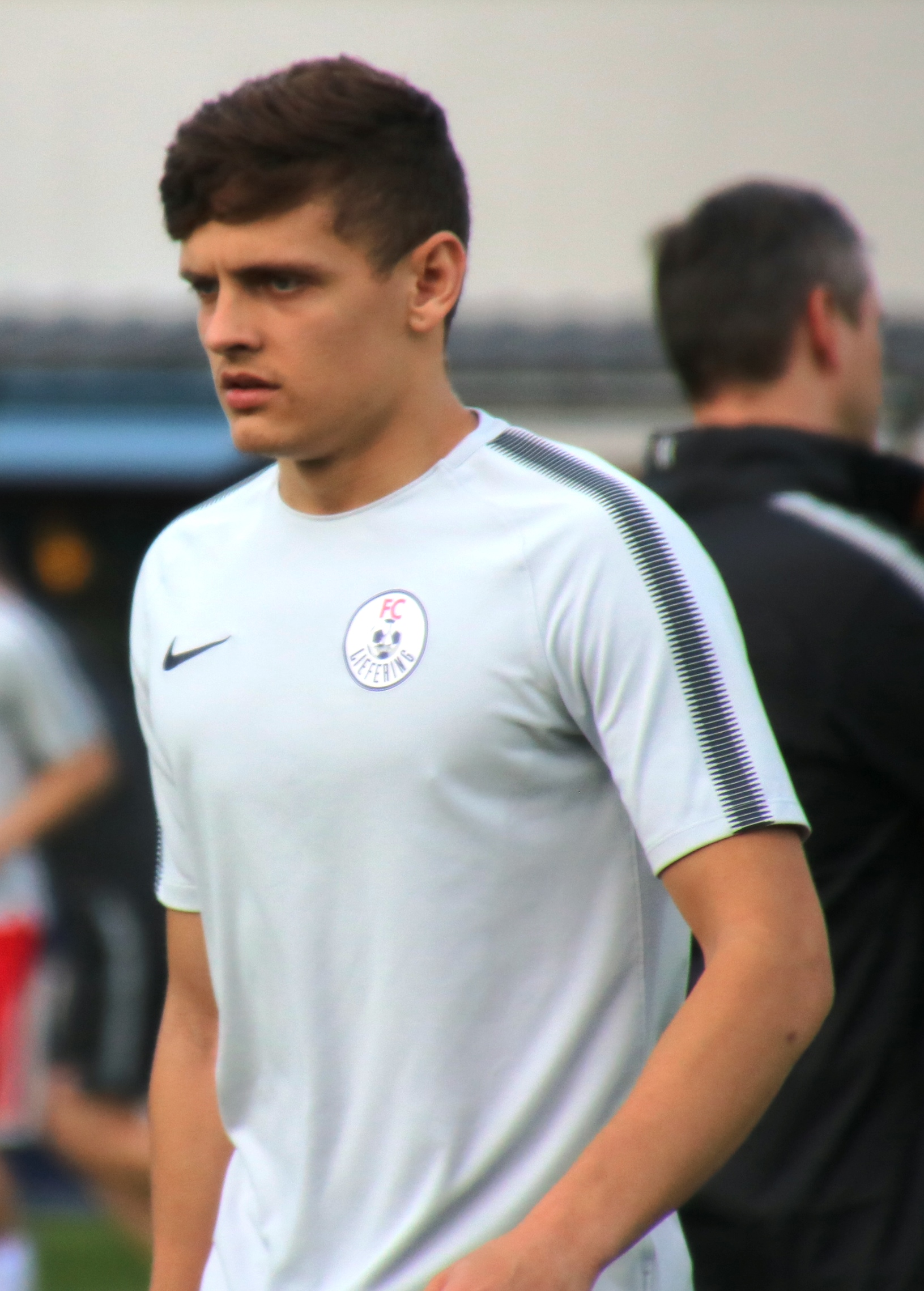 league match 26th round Austria 2nd league